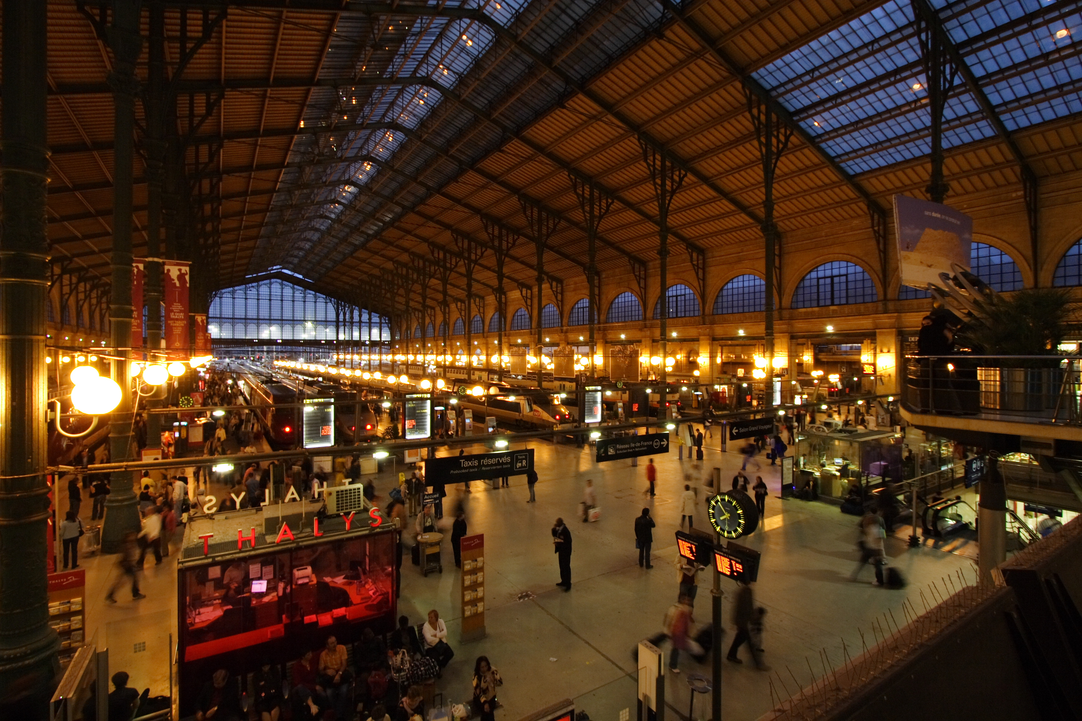 night view of the Gare du Nord(Paris, France)